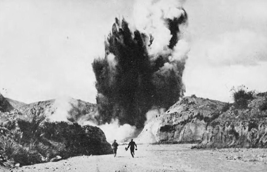 "Waimangu Geyser from Frying-Pan Flat." Waimangu Geyser, Waimangu Valley, near Rotorua, New Zealand. A massive geyser eruption at Waimangu, Rotorua Lakes region. The surrounding geothermal landscape is covered with toi toi grasses. Two men in suits and hats run towards the geyser, while other spectators watch from a hillside. Image from Paul Gooding, Picturesque New Zealand (Boston: Houghton Mifflin, 1913), facing page 110.